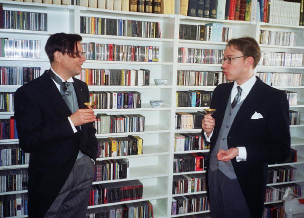 Two Swedish gentlemen wearing formal morning dress